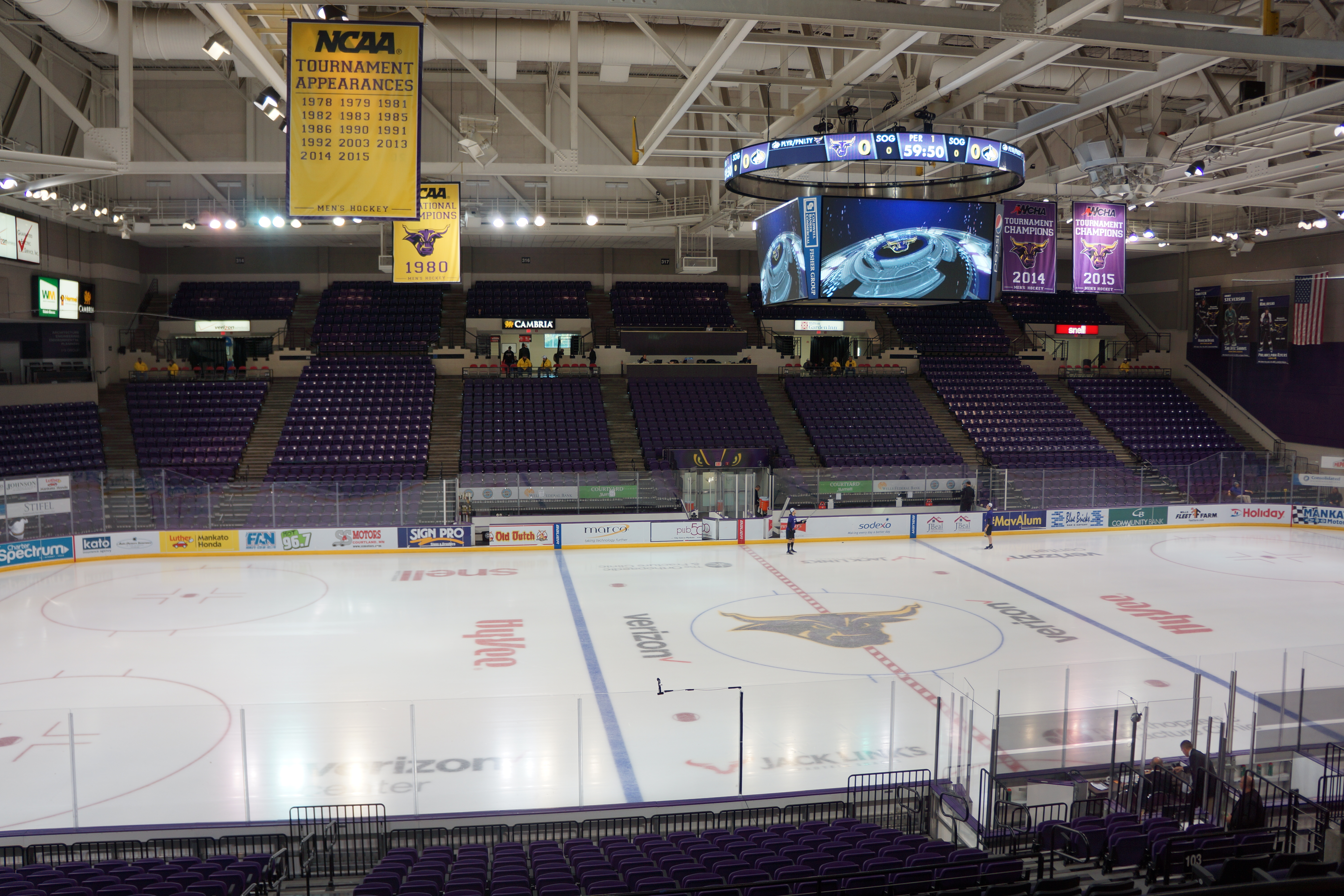 Inside the Verizon Wireless Center looking at the ice arena.